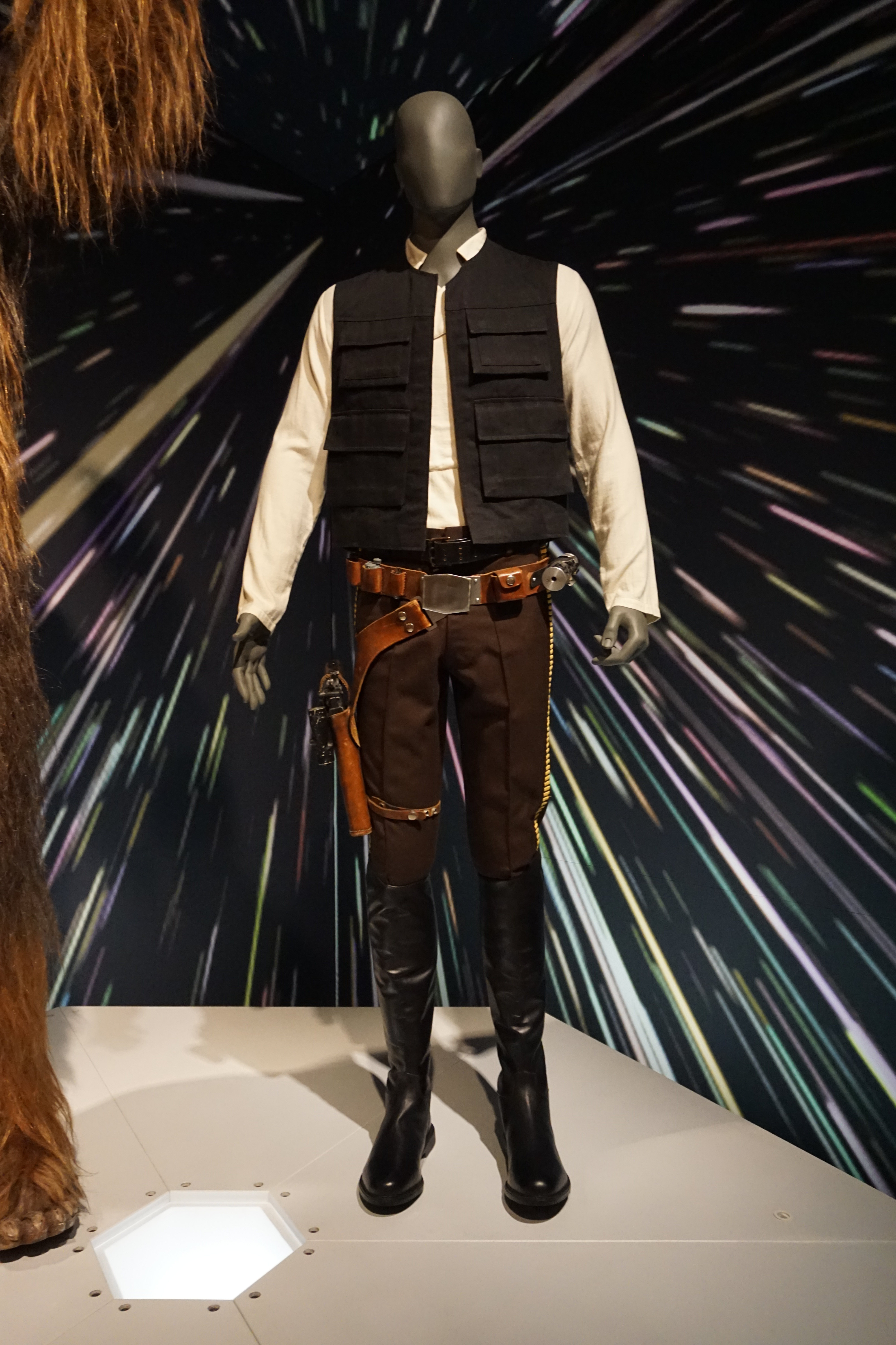 Han Solo's costume and blaster from Star Wars: Episode VI – Return of the Jedi on display at the Star Wars and the Power of Costume traveling exhibit at the Detroit Institute of Arts in Detroit, Michigan (United States).